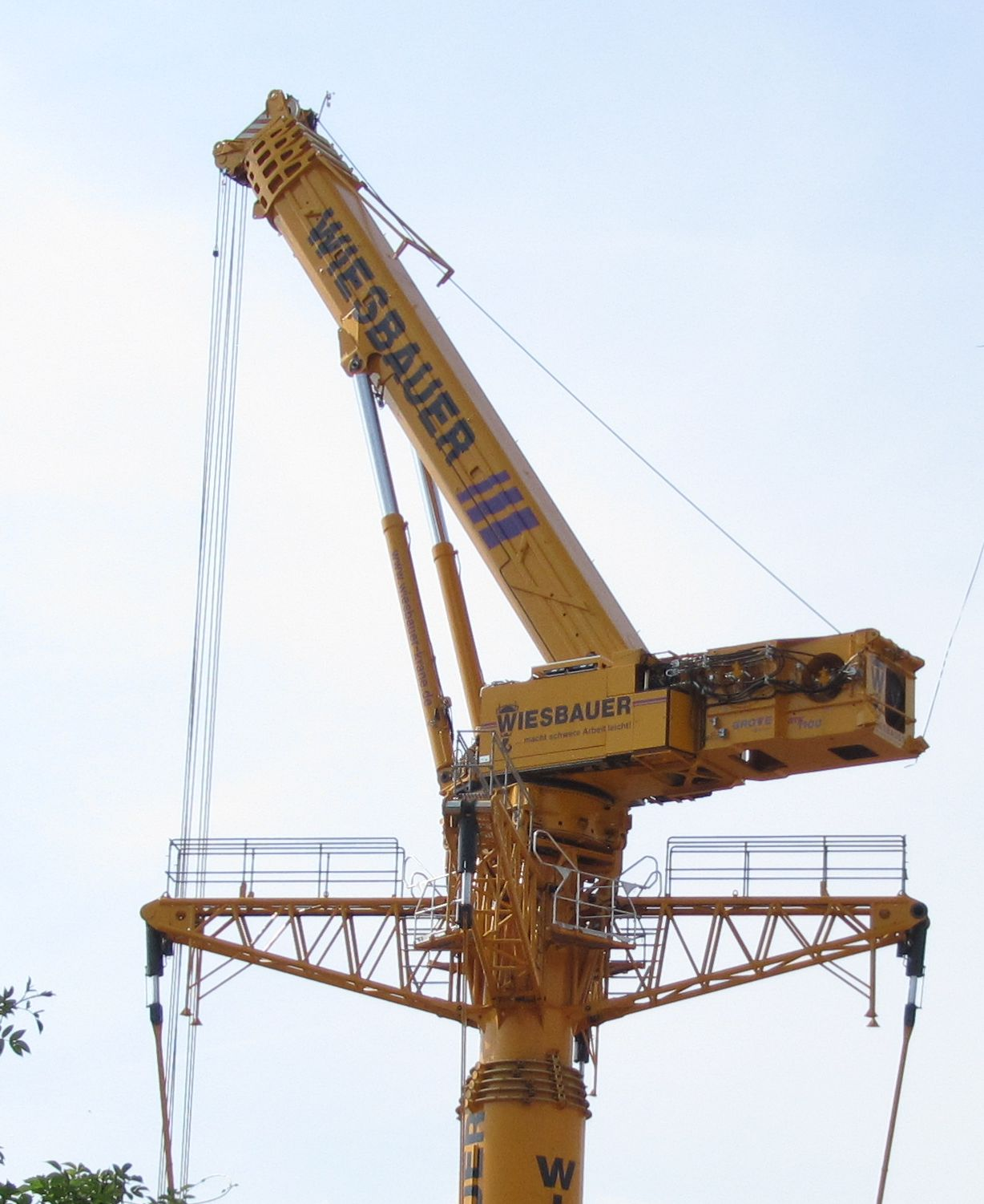 Crane Grove GTK 1100